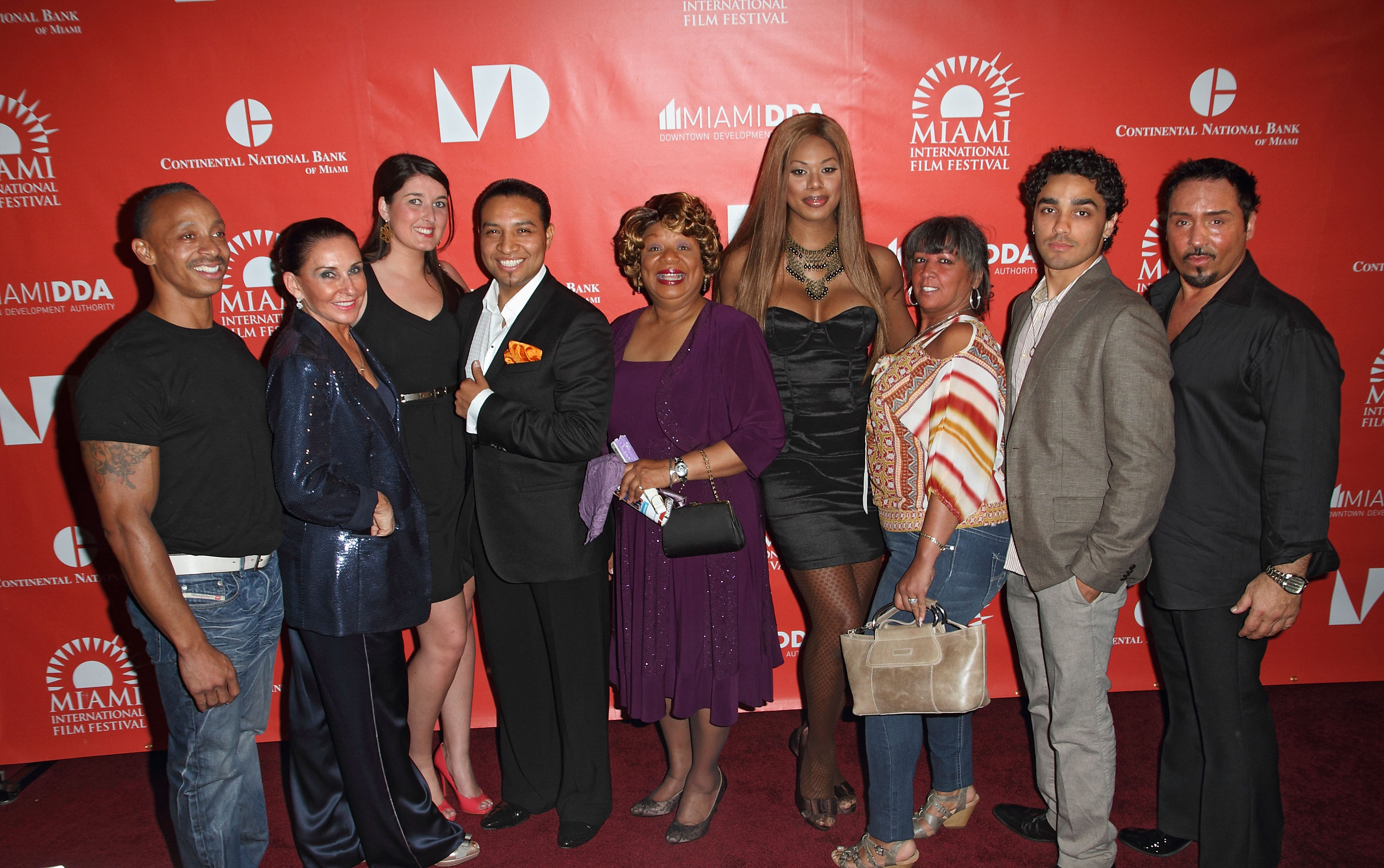 The cast & crew of the film "Musical Chairs" at the 2012 Miami international Film Festival presentation at the Olympia Theater at the Gusman Center for the Performing Arts. From left:Producer Mareo Ryan, producer Janet Carrus, unknown, choreographer Jose Edger Osorio, unknown, Laverne Cox, unknown, EJ Bonilla & producer Joey Dedio